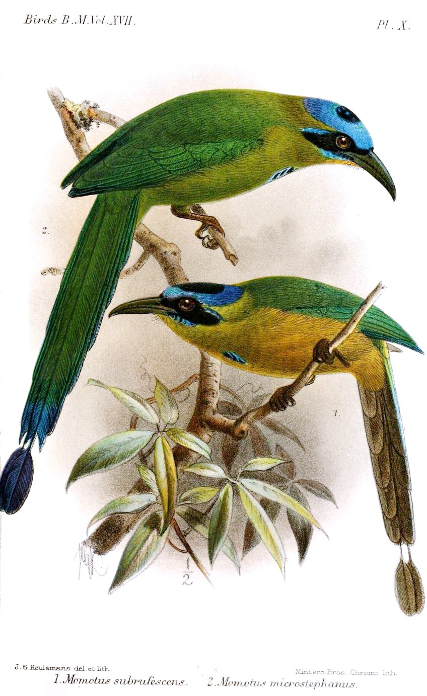 Sclater's Motmot (above) - Colombian Motmot (below)